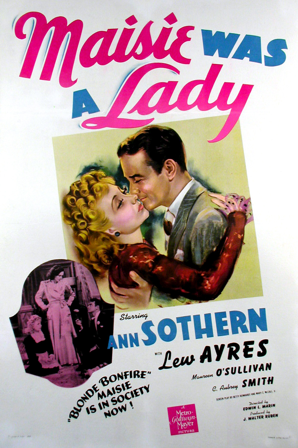 Poster for the 1940 film Maisie Was a Lady. The item has no copyright markings on it as can be seen in the link above. At bottom is Litho in USA, some numbers which probably pertain to the printing of the poster and Tooker Litho Co., NY-they printed the poster.